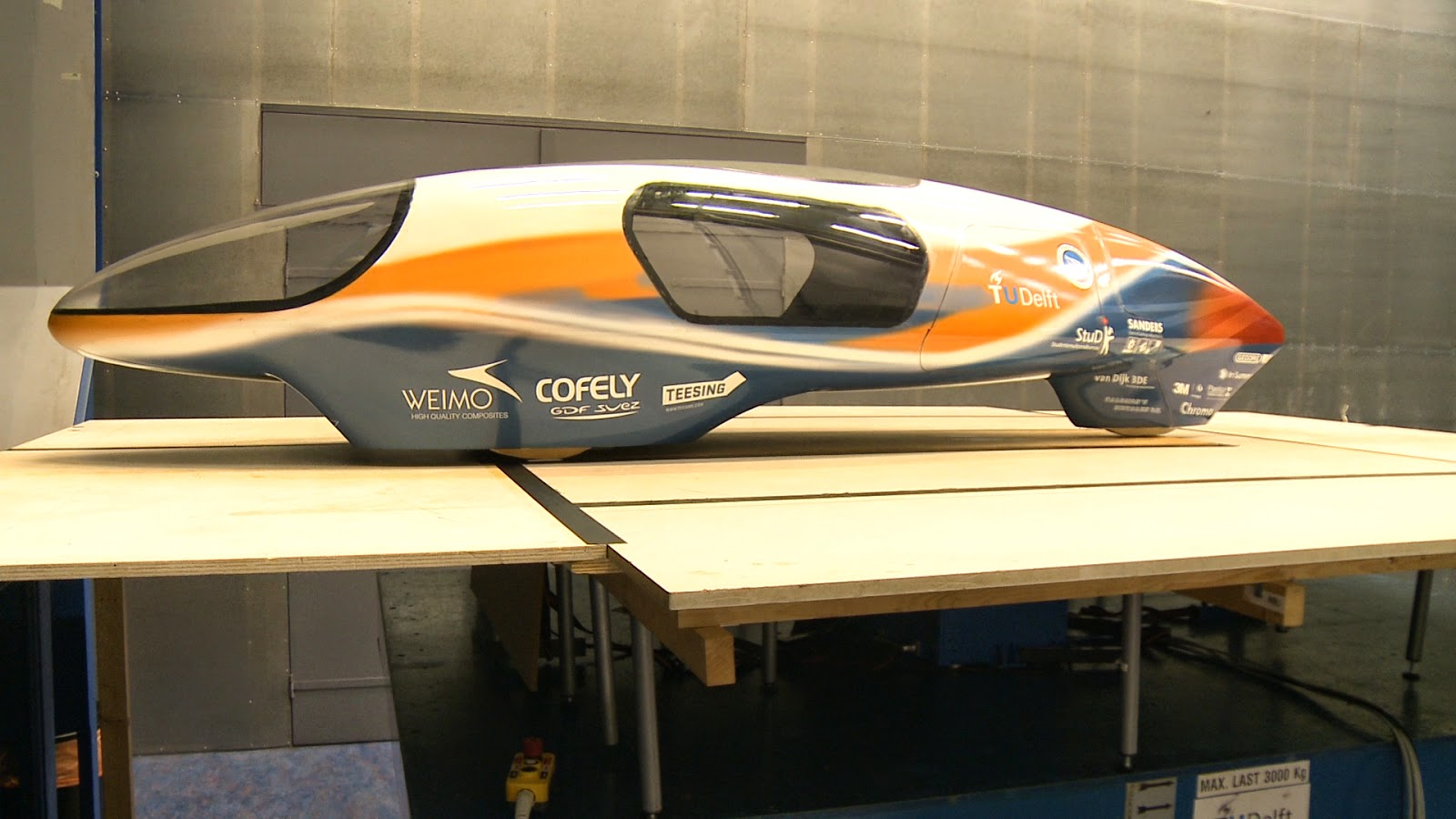 The photograph of Eco-Runner 5